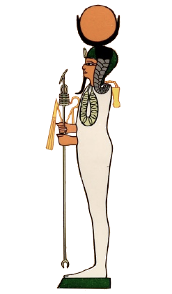 The Egyptian moon-god Iah